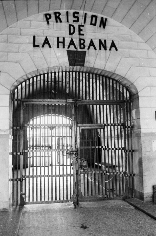 Castillo del Príncipe_Prision de La Habana. Havana, Cuba